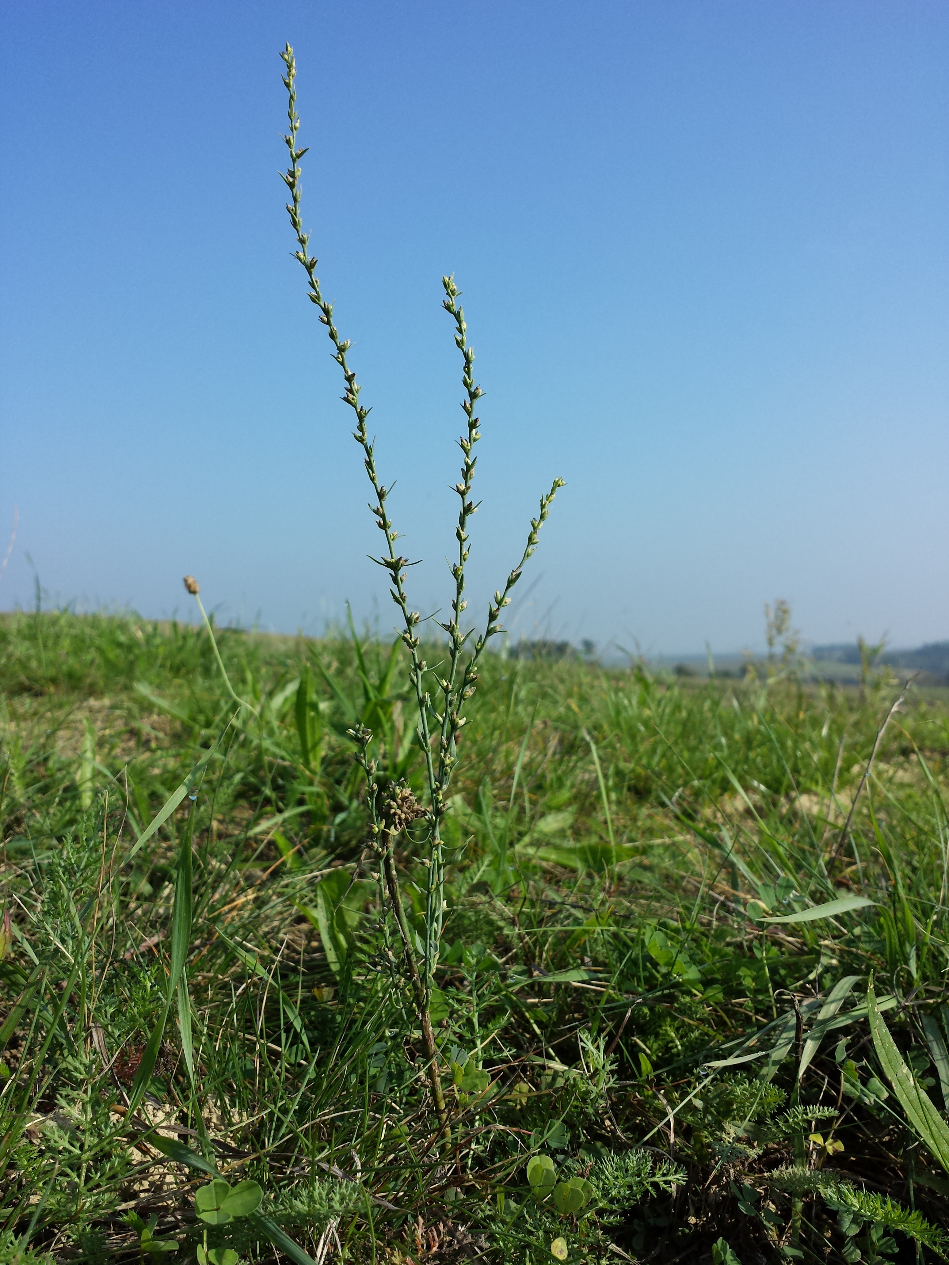 Habitus Taxon: Thymelaea passerina (sensu Fischer et al. EfÖLS 2008 ISBN 978-3-85474-187-9) Location: Natural monument Blauer Berg near Oberschoderlee, district Mistelbach, Lower Austria - ca. 280 m a.s.l. Habitat: dirt road (Loess)